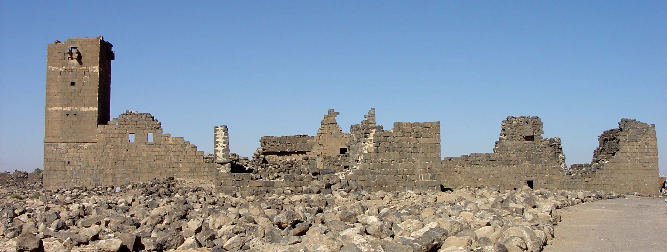 View looking west towards the Roman fort (usually called the Barracks, or Later Castellum) of Umm al-Jimal. The square tower at left is Byzantine.